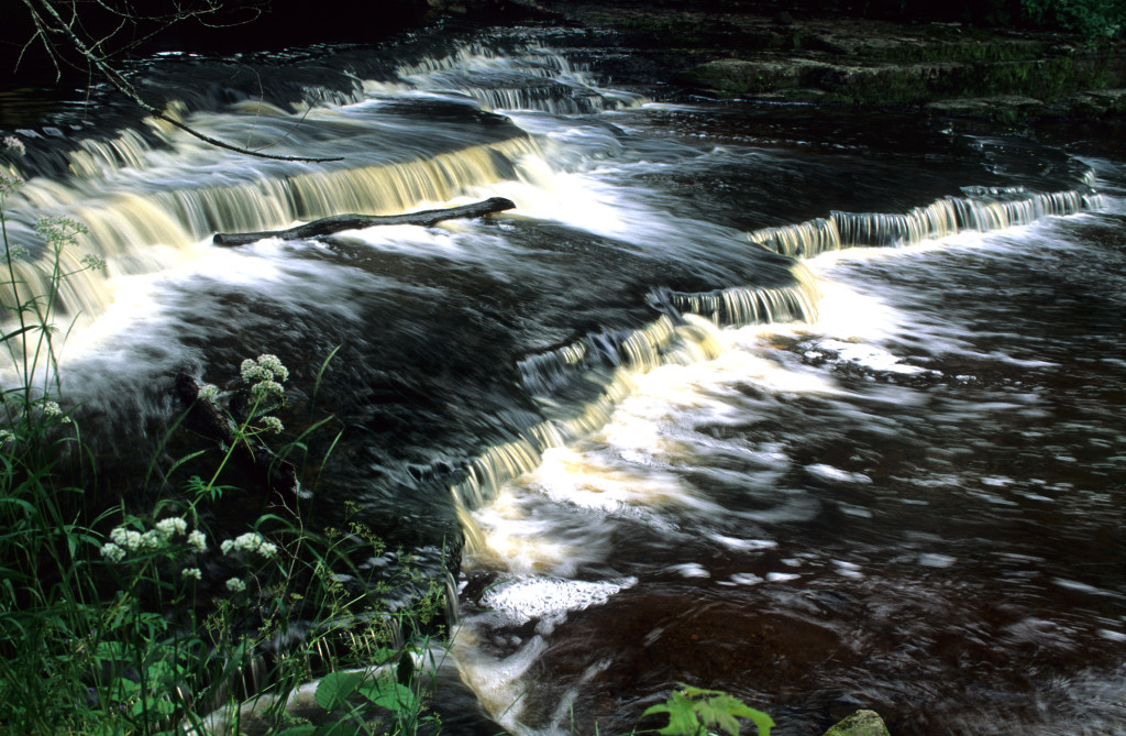 Joaveski Waterfall Cascade